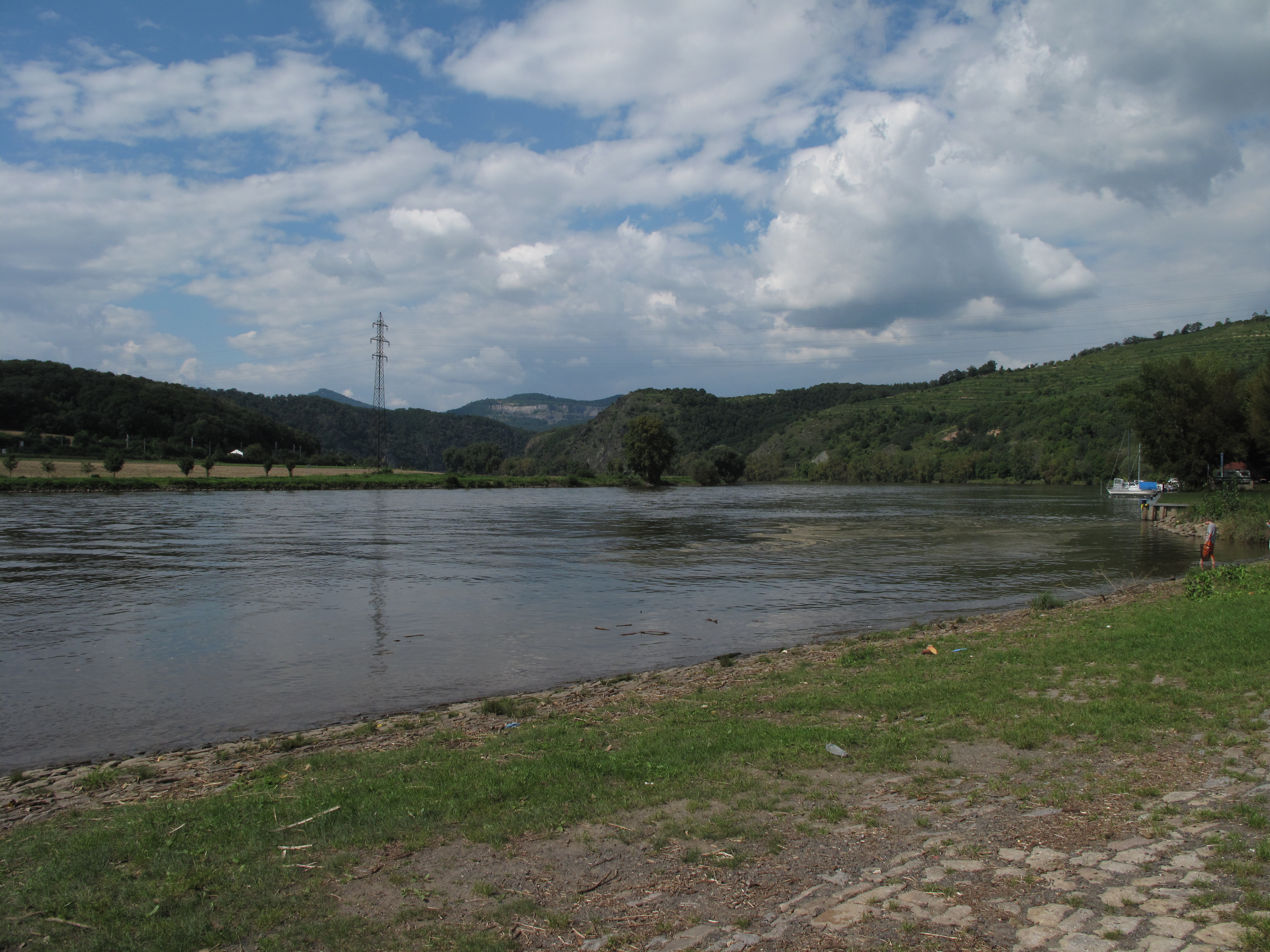 Porta Bohemica as seen from ferry in Velké Žernoseky village, Litoměřice District, Czech Republic.